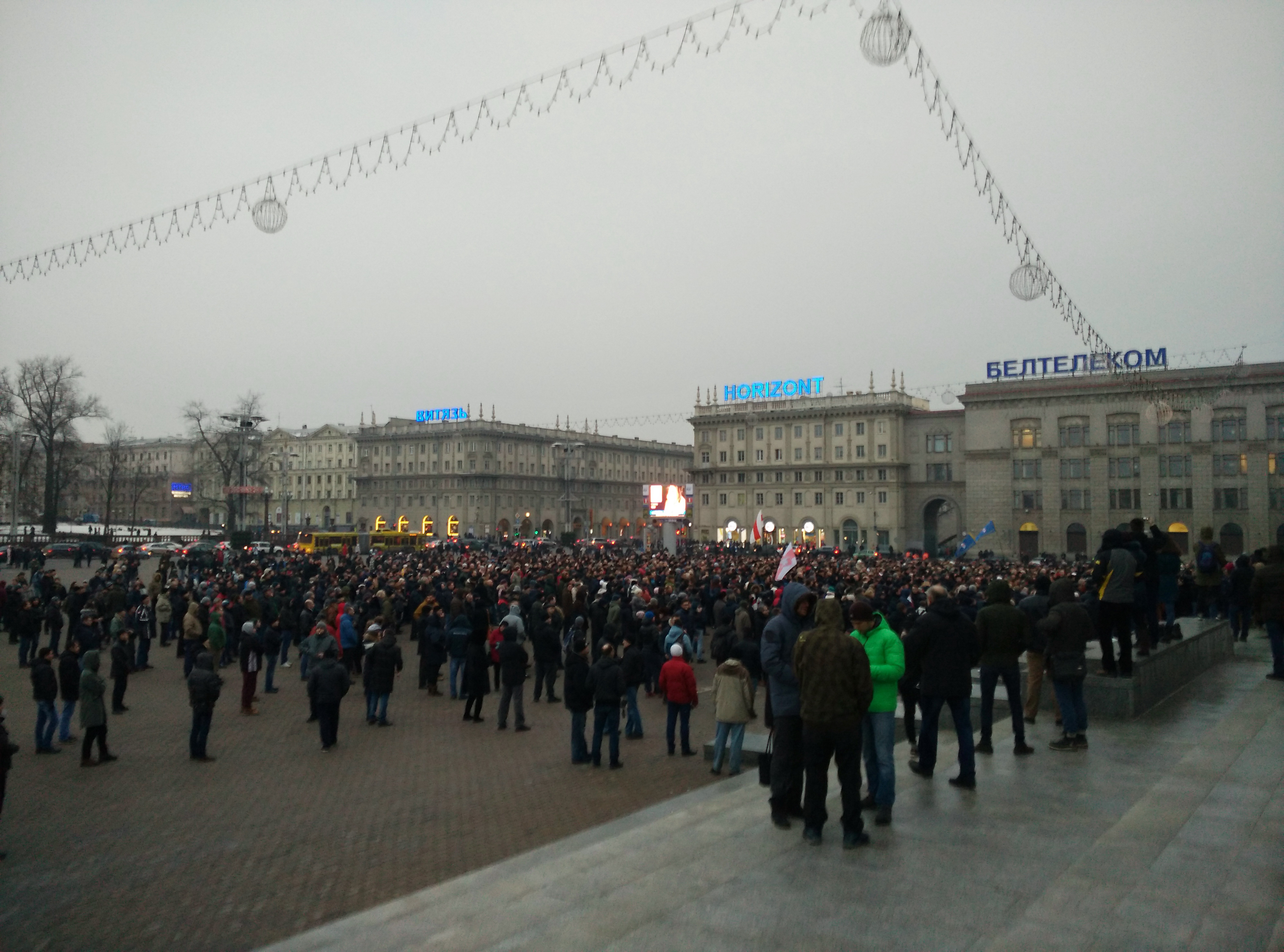 Belarusians march on Kastryčnickaja plošča in Minsk, 2017-02-17